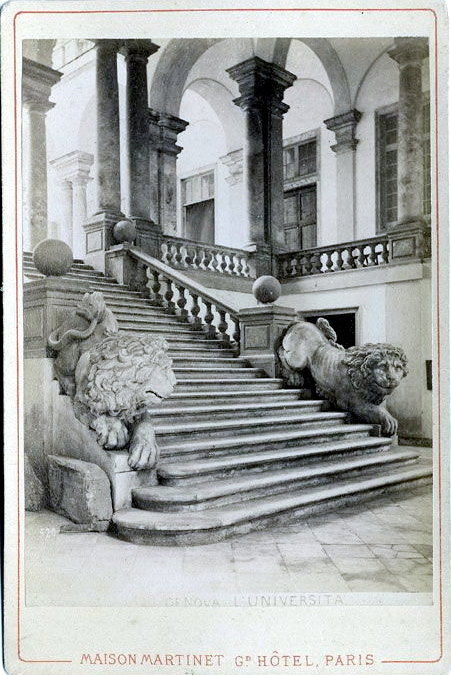 James Anderson (1813-1877) - "Genoa. The University". Catalogue #: 520.